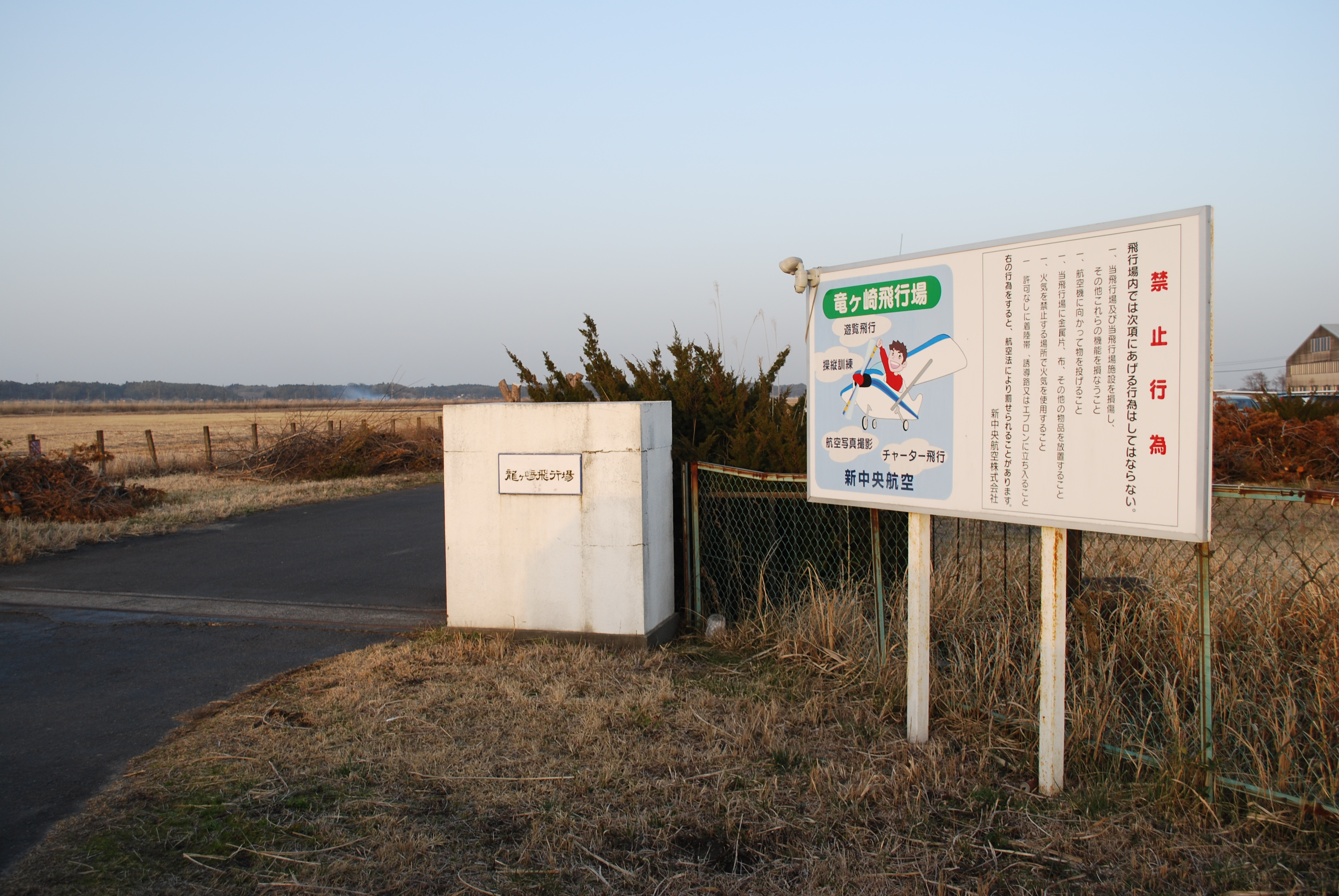 Ryūgasaki Airfield, Ryugasaki, Ibaraki Prefecture, Japan